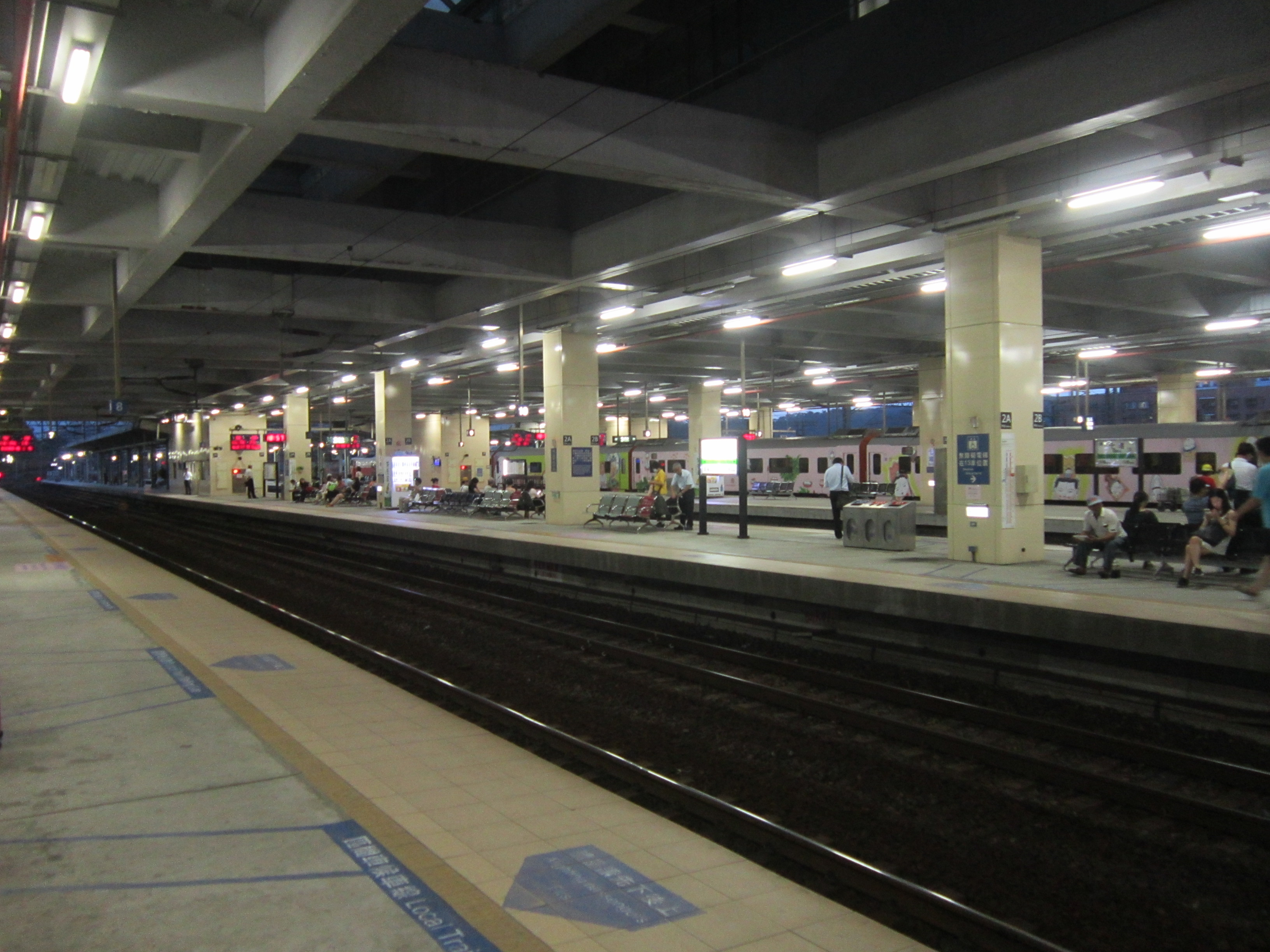 TRA Qidu Station Platform 2.